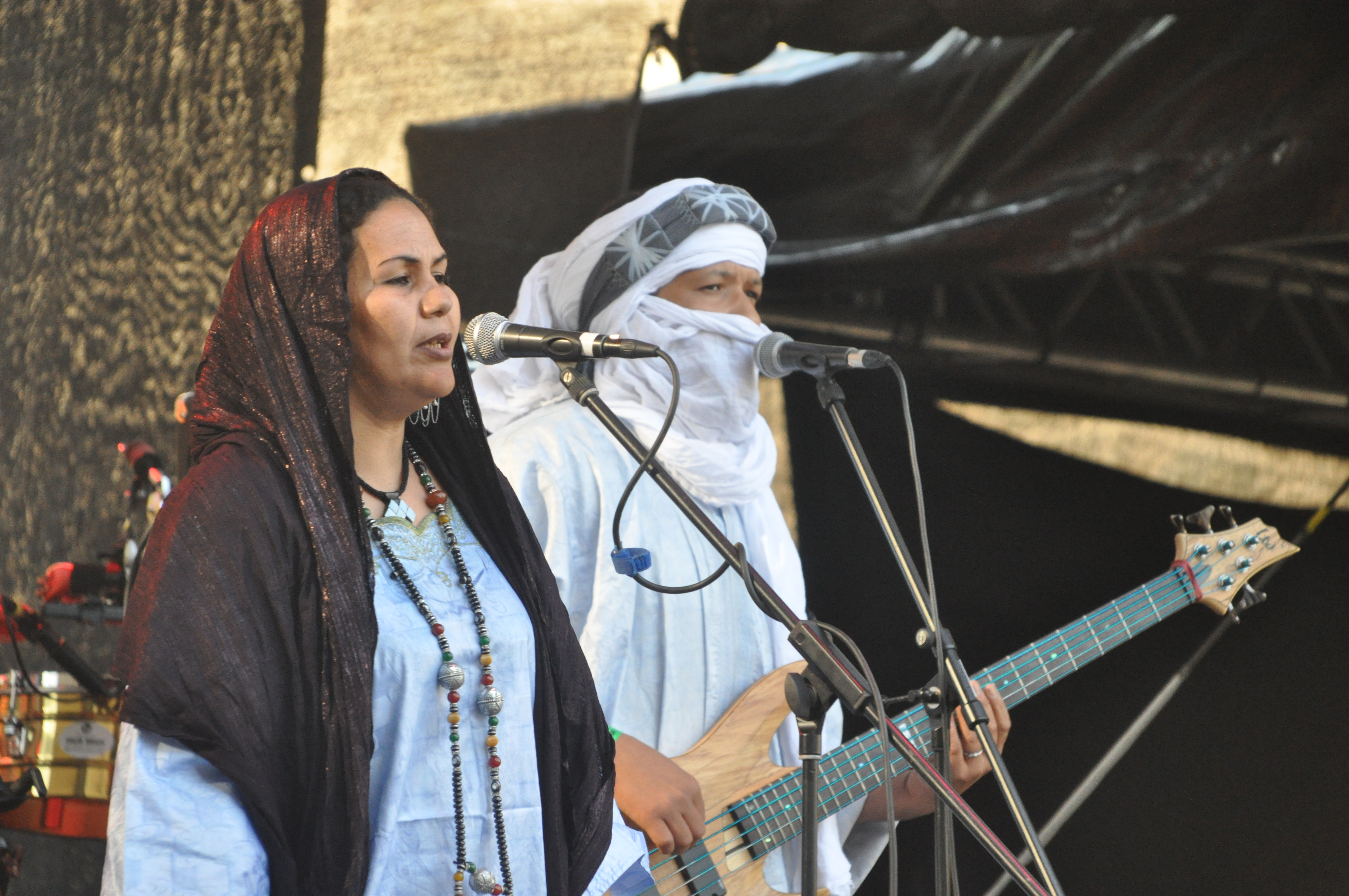 Tamikrest (Mali), appearence at the 11th world music festival "Horizonte" 2013 at the fortress Ehrenbreitstein, Koblenz, Germany